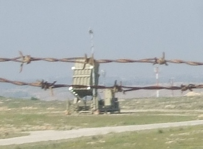 Iron Dome defence system deployed next to Be'er Sheva Israel